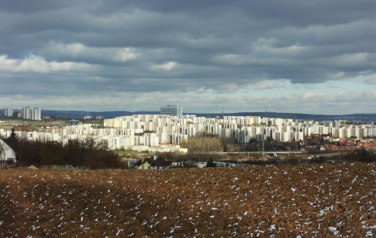 Housing estate Bohunice and Starý Lískovec from south